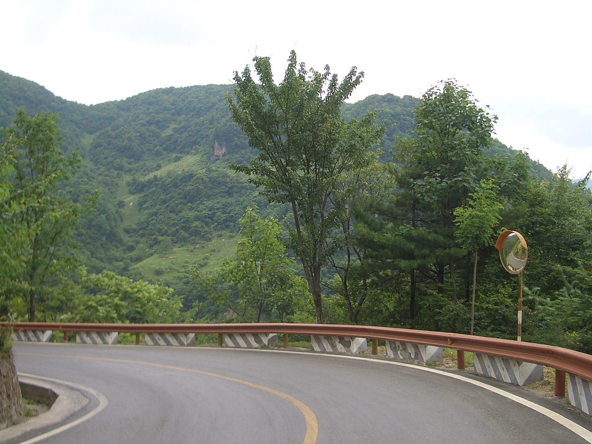 Well-maintained section of Hwy G209 over the mountains from Muyu to Yazikou Junction (entry to Shennongjia National Nature Reserve) is provided with mirrors at hairpin turns